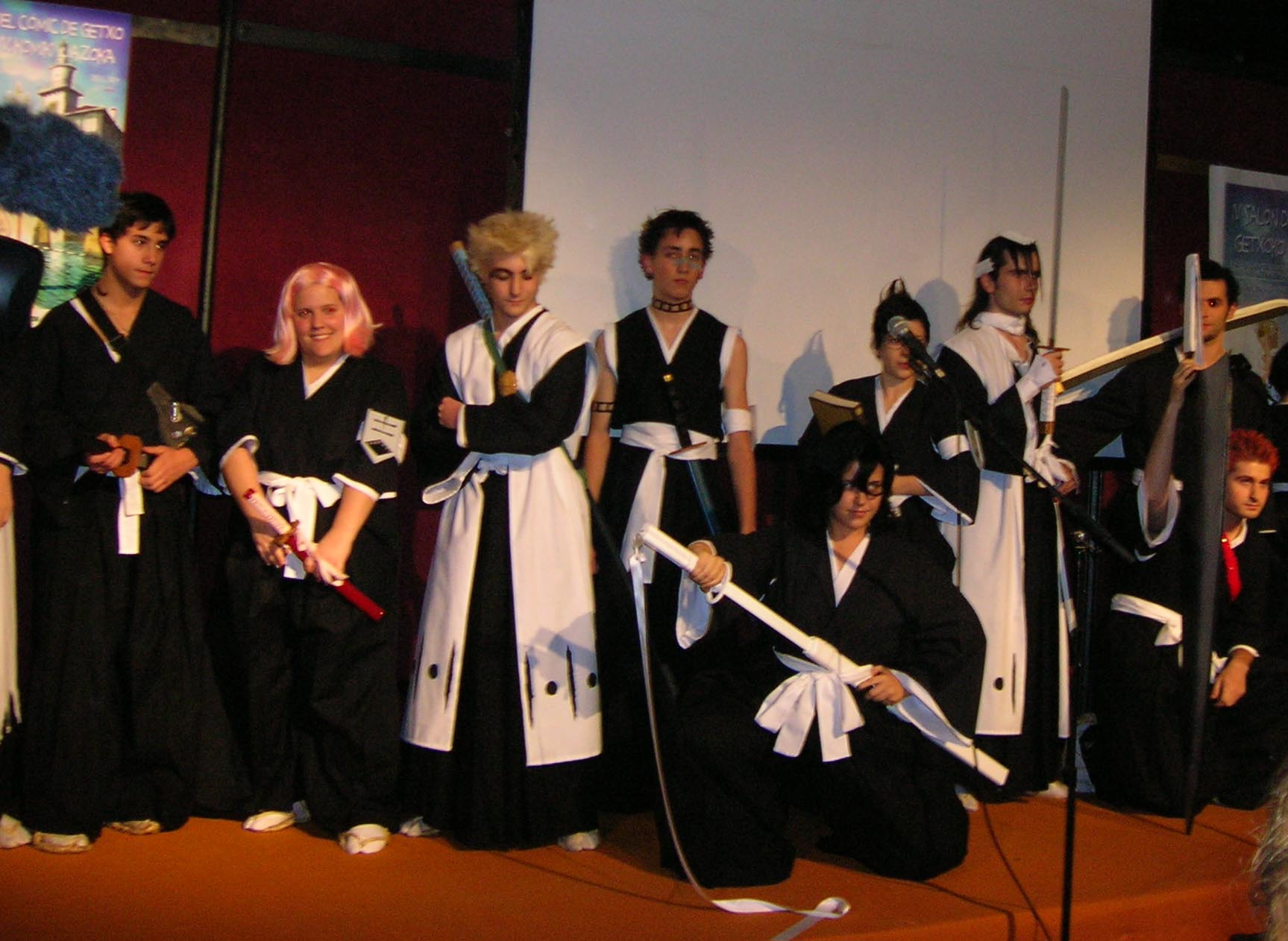 Cosplay contest in the IV Getxo Comic Con.